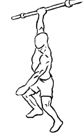 an exercise of most of the body